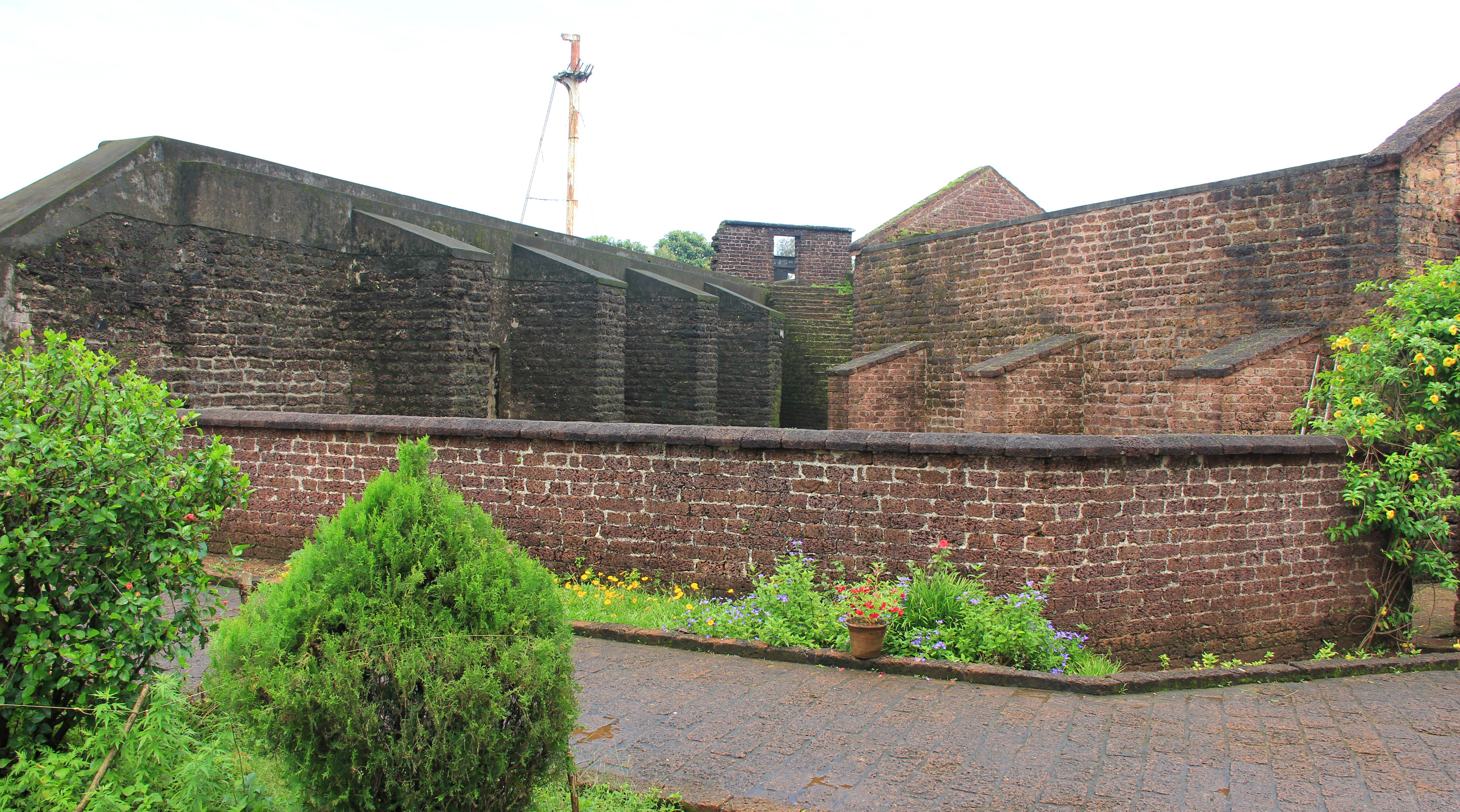 Fort St. Angelo